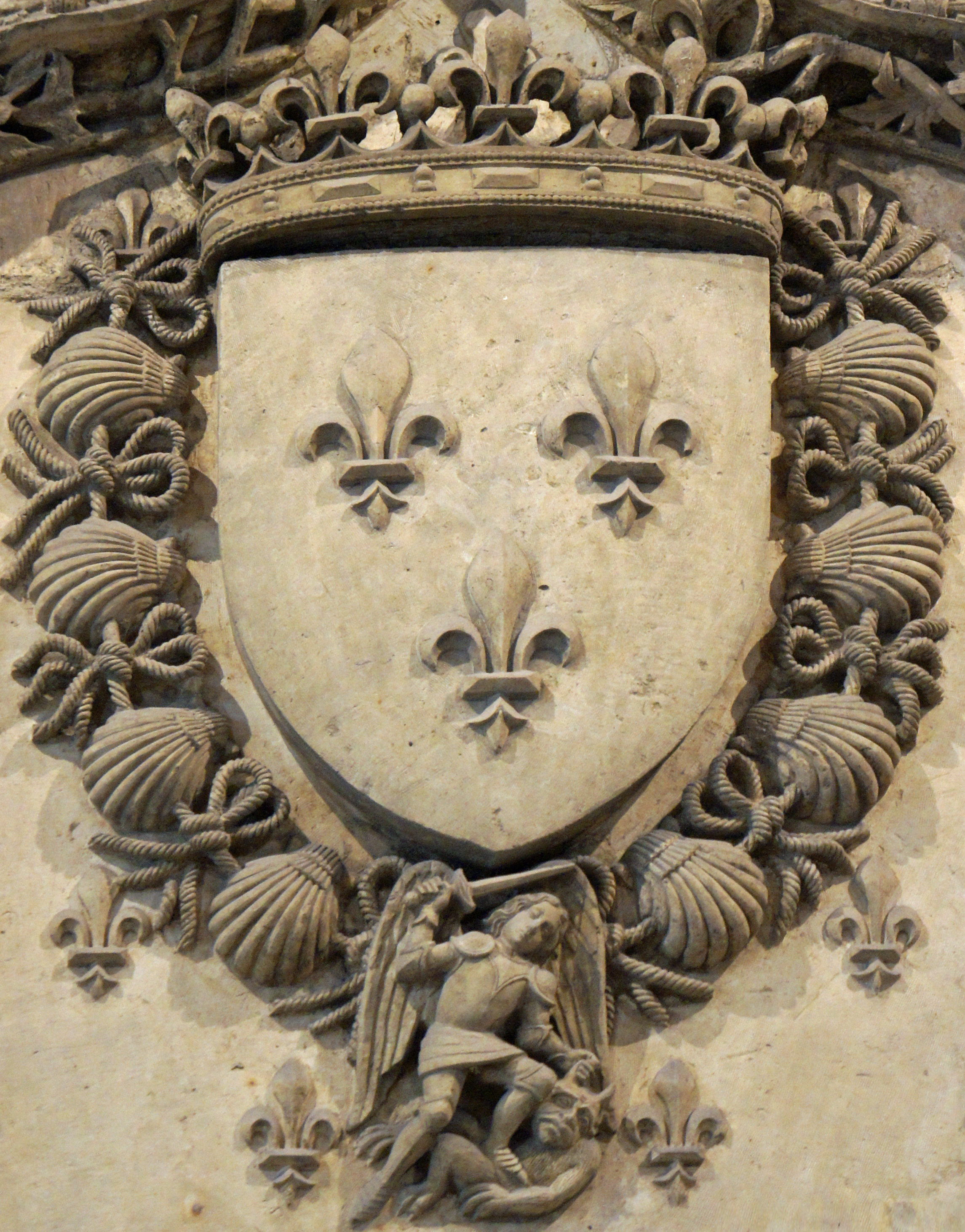 Coats of arms on the fire place of the banqueting hall of the palais du Tau (Reims, France)